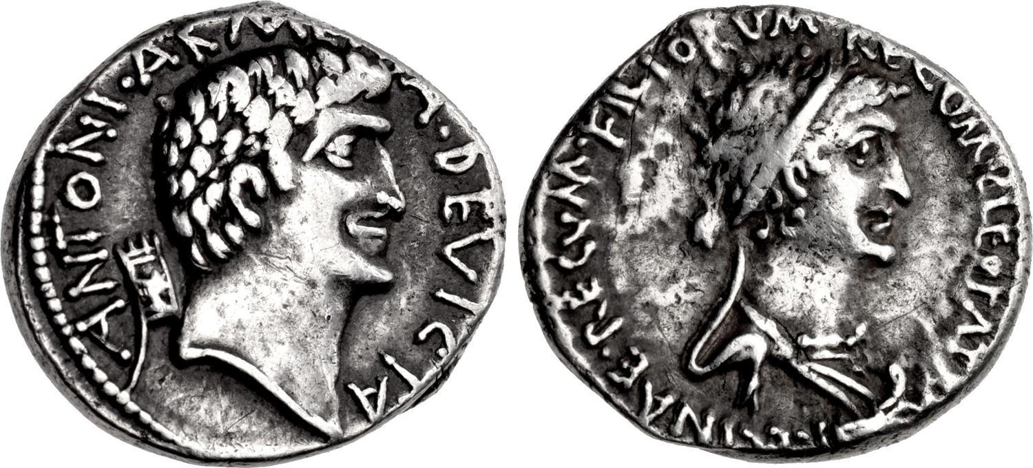 The Triumvirs. Mark Antony and Cleopatra. Autumn 34 BC. AR Denarius (18mm, 3.72 g, 12h). ANTONI • ARM[ENI]A • DEVICTA, bare head of Mark Antony right; Armenian tiara to left / CLEOPATRA REGINAE • REGVM • FILIORVM • REGVM, diademed and draped bust of Cleopatra right; at point of bust, prow right. Crawford 543/1 note; CRI 345; Sydenham –; RSC 1c; Kestner –; BMCRR East –. Good VF, toned. From the Collection of a Director. Ex Auctiones AG 3 (4 December 1973), lot 343.